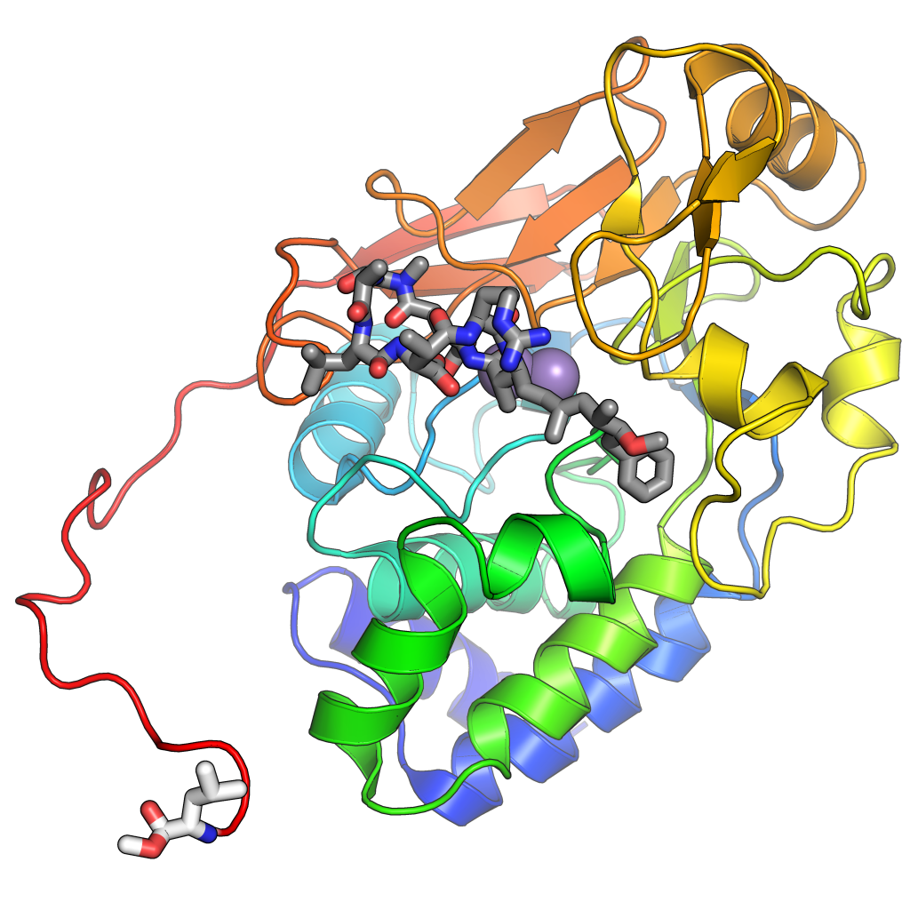 The catalytic subunit (that is, the C subunit) of protein phosphatase 2A. The protein is shown in rainbow color with the N-terminus in blue and the C-terminus in red. The methylated carboxyl group of the C-terminal leucine residue is shown in white. The purple spheres are two catalytically required manganese ions and the dark gray compound at center is a peptidomimetic toxin, microcystin, occupying the active site. Compare File:Pp2a 2iae chainABC 1b3u chainA.png, which shows the catalytic subunit in tan in the context of the assembled PP2A heterotrimer. PDB 2IAE: Cho US, Xu W. Crystal structure of a protein phosphatase 2A heterotrimeric holoenzyme. (2007). Nature 445, 53-57. DOI 10.1038/nature05351